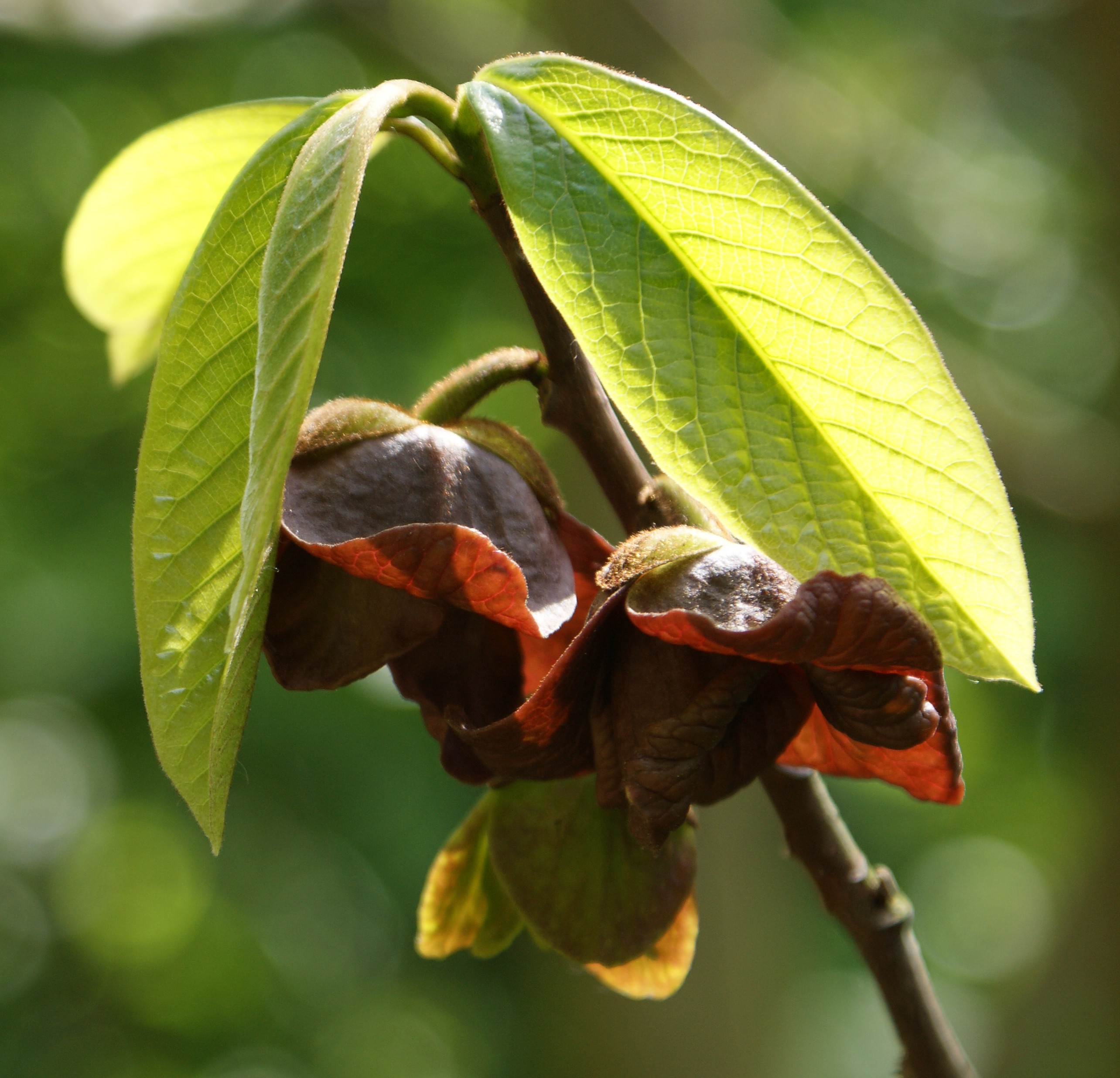 Asimina triloba — Paw Paw; flowers. Glinna Arboretum near Szczecin (NW Poland)